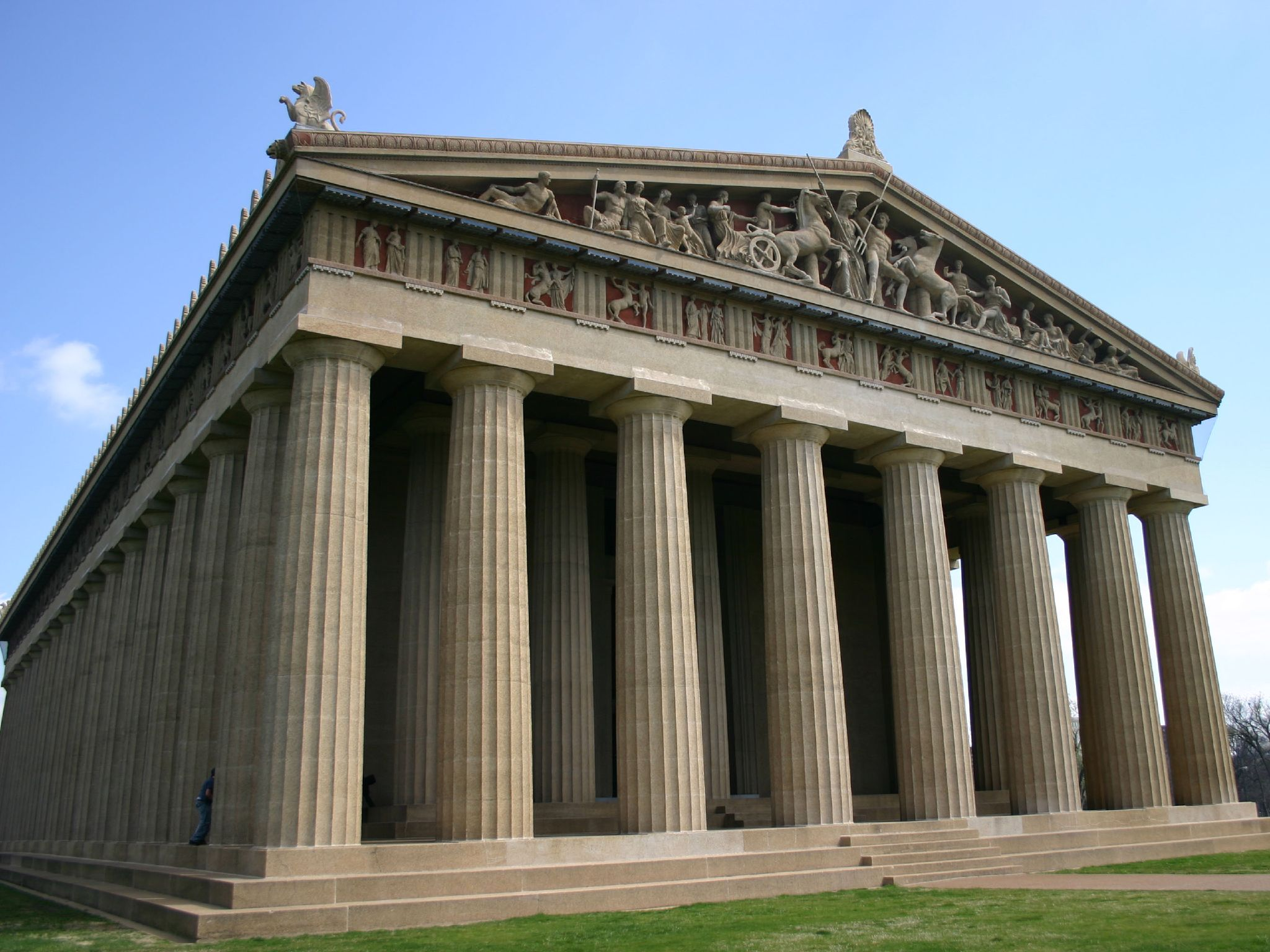 Nashville Parthenon, Tennessee.